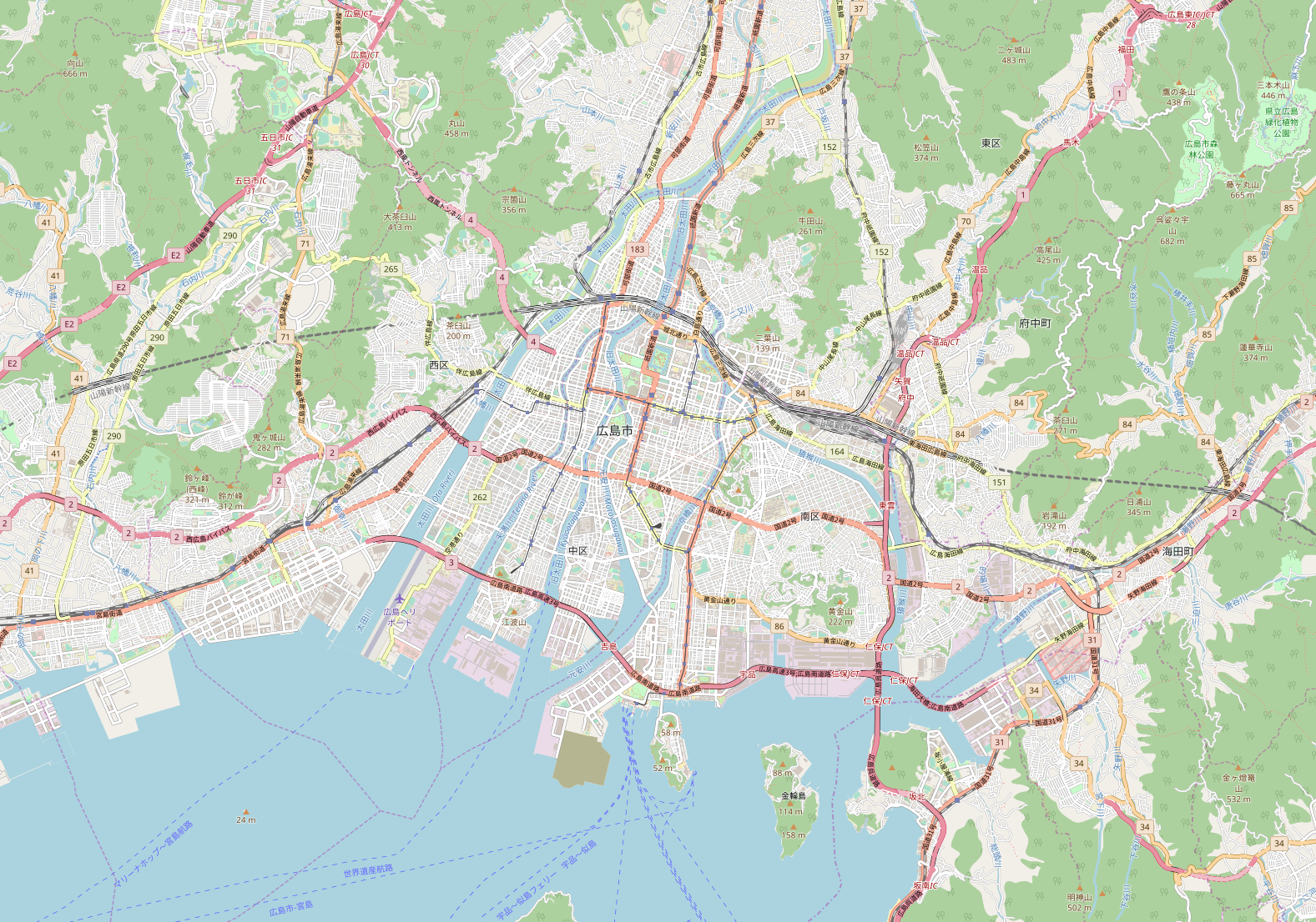 map of the urban area of Hiroshima City, Japan This map may be incomplete, and may contain errors. Don't rely solely on it for navigation.